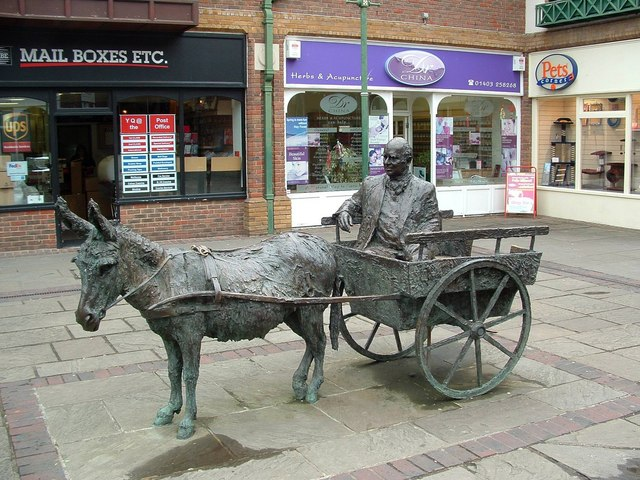 Donkey Cart Sculpture, Piries Place, Horsham. The man in the cart is William Pirie, headmaster at The College of Richard Collyer between 1822 and 1868. The sculptor is Lorne Mckean.